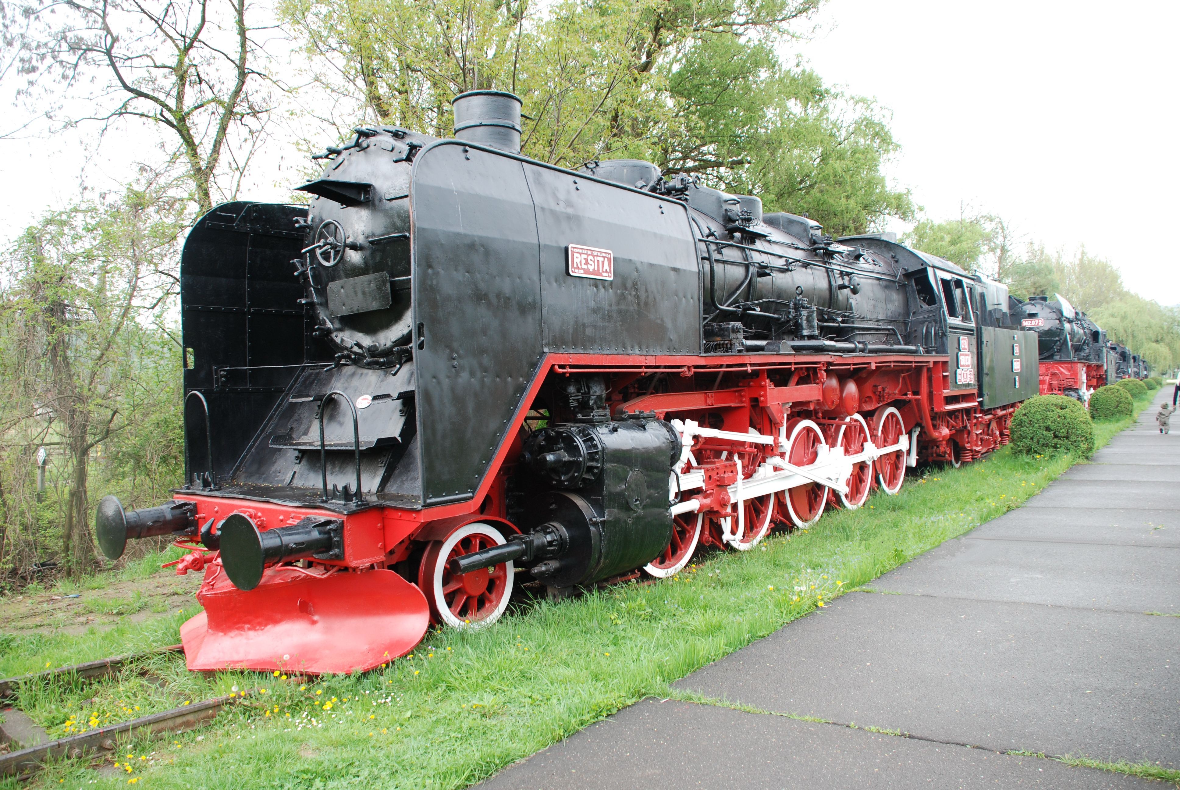 CFR 150.038 romanian heavy freight locomotive